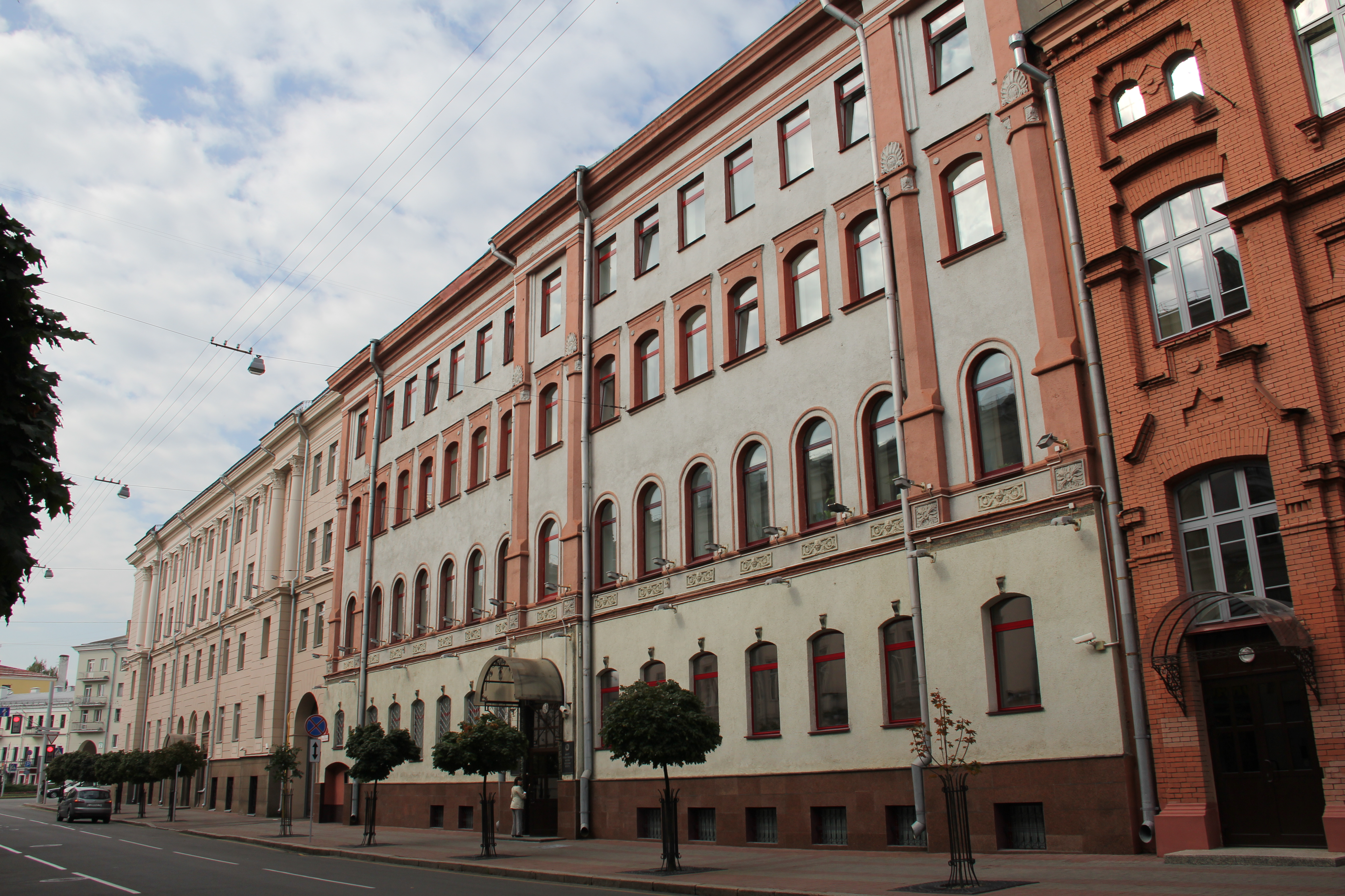 Беларуская (тарашкевіца): Будынак. г. Менск This is a photo of Belarusian heritage monument. Reference number: 713Г000111 ( WLM)